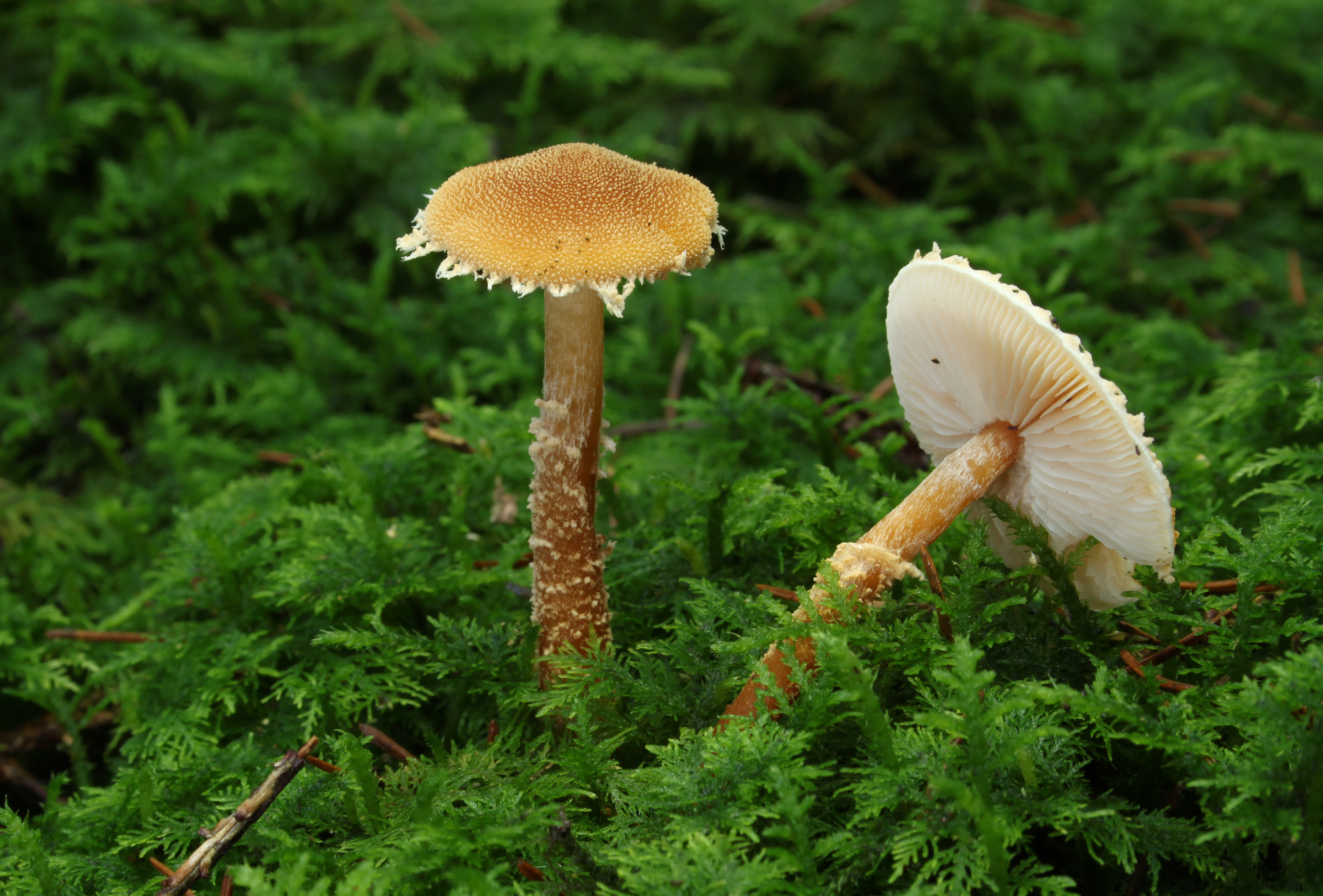 Saffron Parasol, Saffron Powder-Cap or Earthy Powder-Cap Cystoderma amianthinum, Family: Agaricaceae, Location: Biberach an der Riss